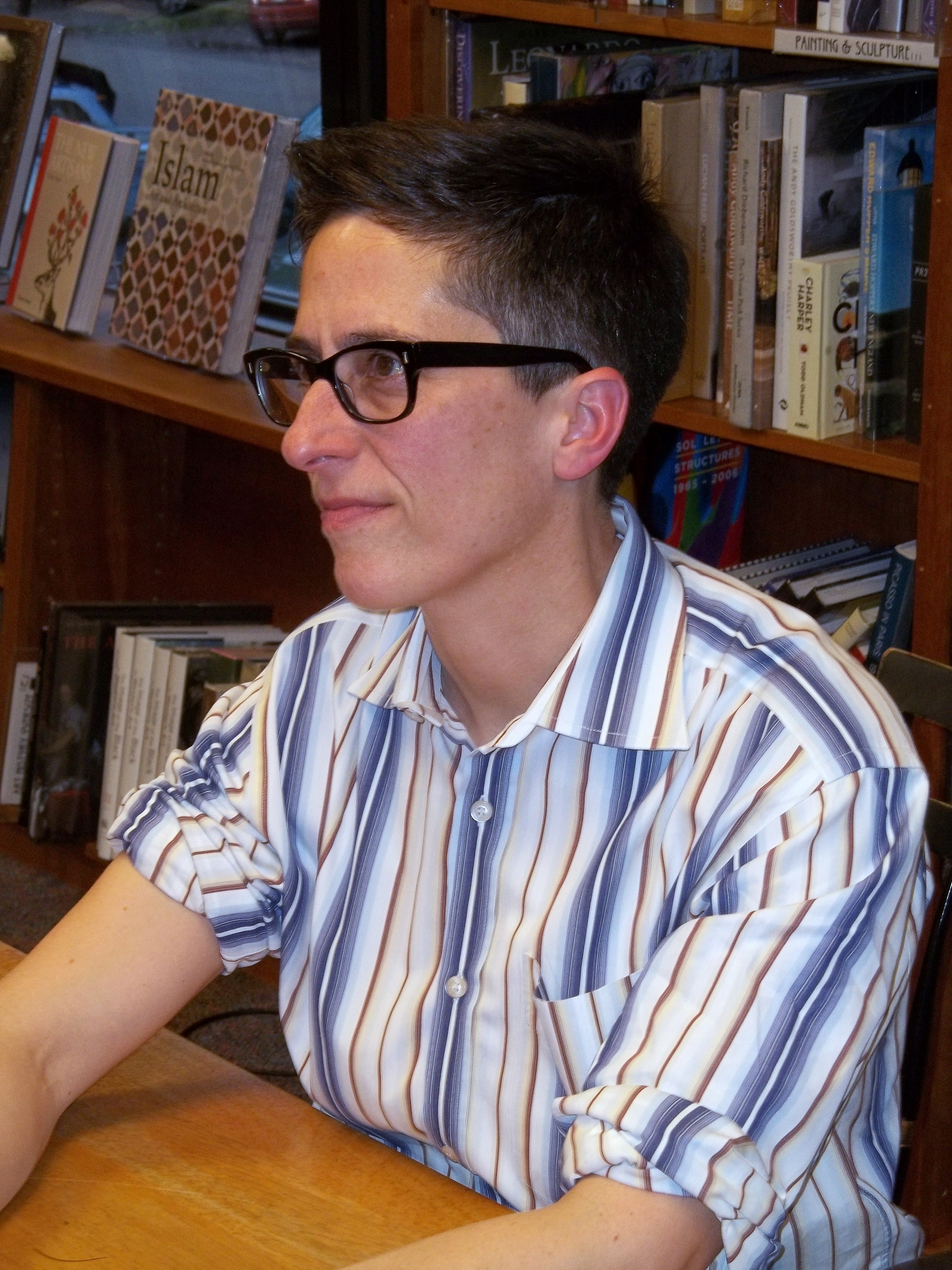 Alison Bechdel at Politics and Prose bookstore